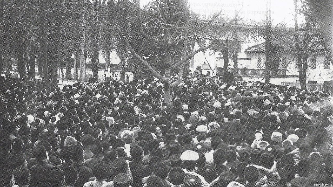 Crimean Tatar Qurultay, 1917, the Bakhchisaray Palace is visible from behind. Noman Chelebijikhan, the first chairman of the Crimean Democratic Republic, is standing, two flags to his right, one of which was adopted in 1917 (blue with yellow tamga).